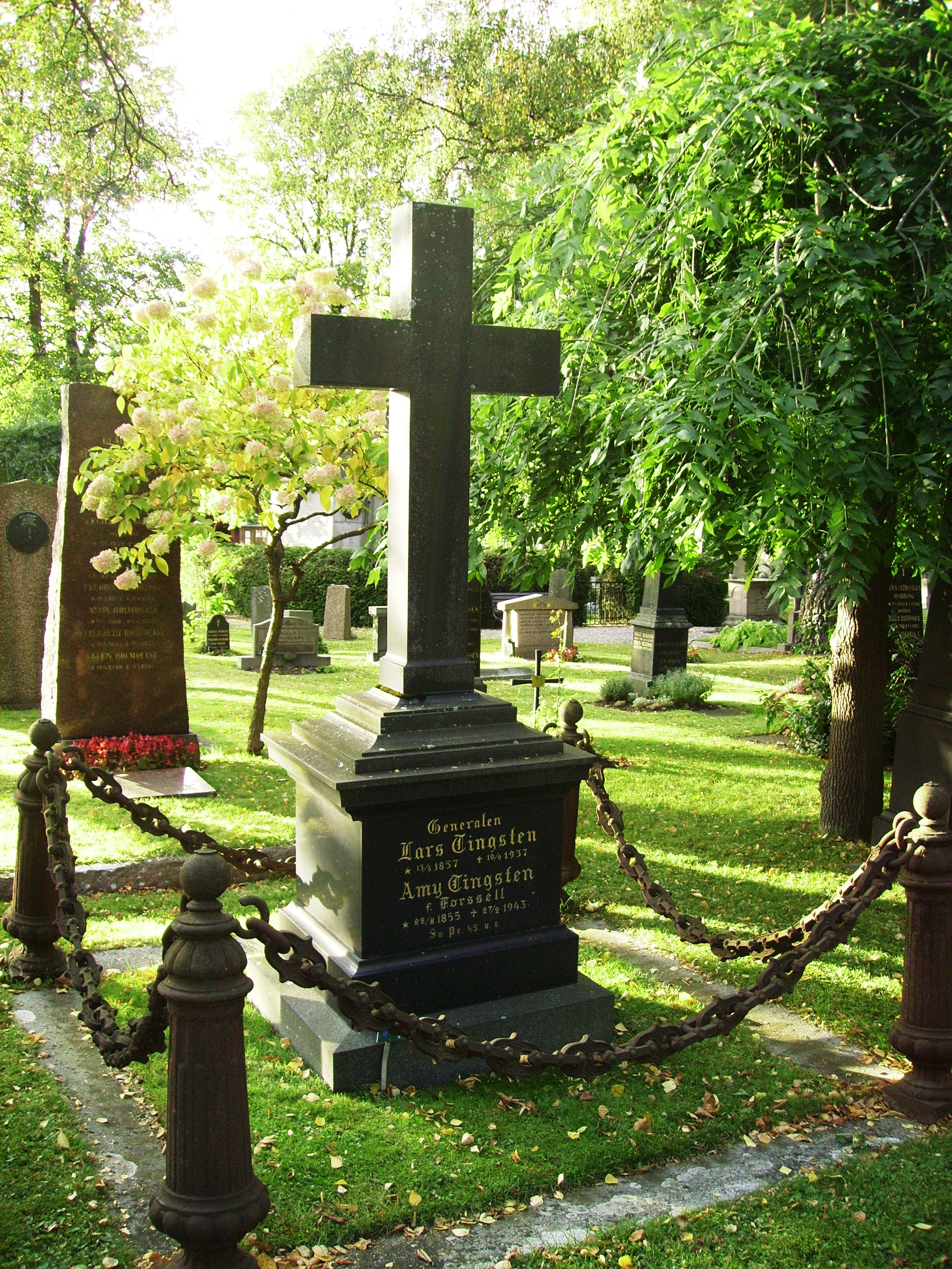 Picture of Lars Tingsten's grave at Solna kyrkogård